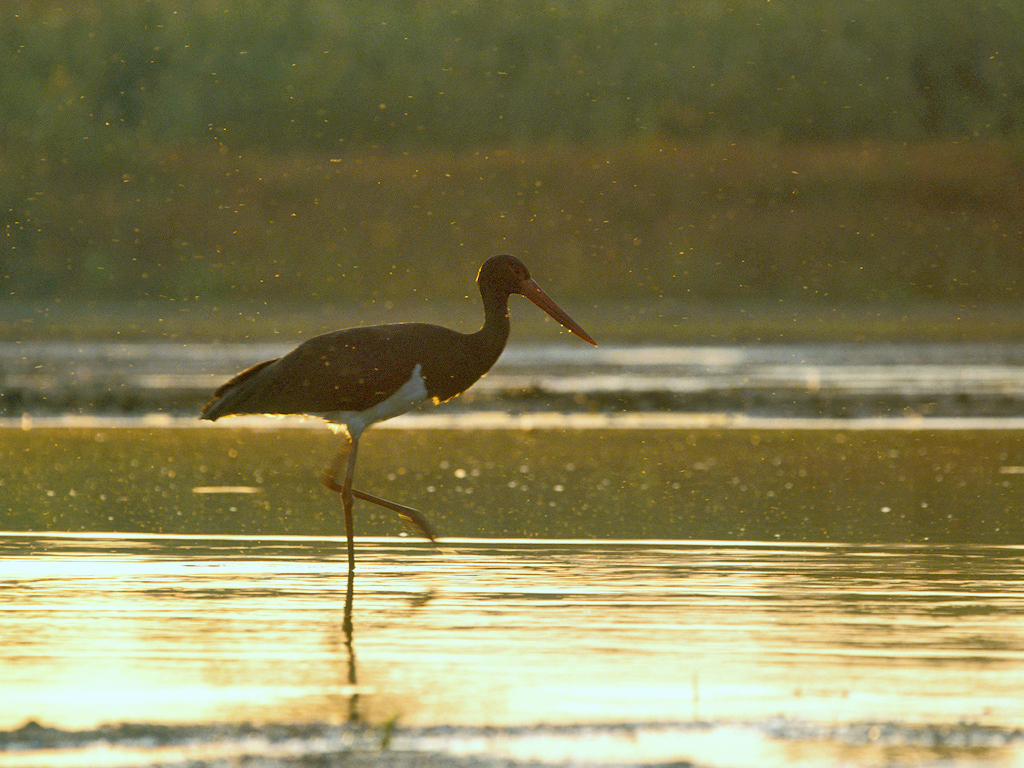 Summary Ciconia nigra Description:Ciconia nigraAuthor:Lukasz LukasikDate:-License:GFDL Licensing